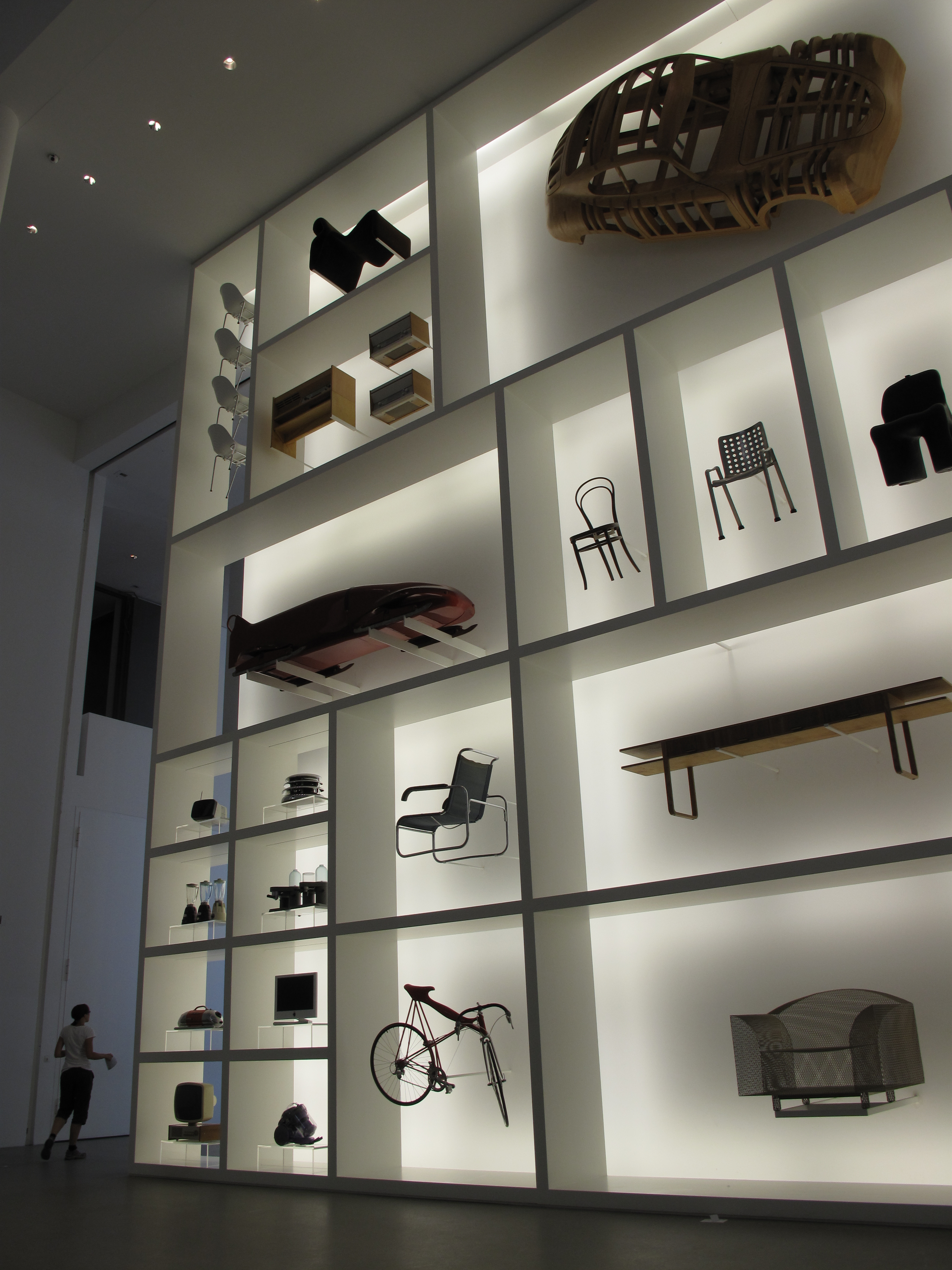 The entrance to the design-collection of the museum Pinakothek der Moderne in Munich.